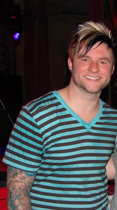 Blake Lewis on August 25, 2009.